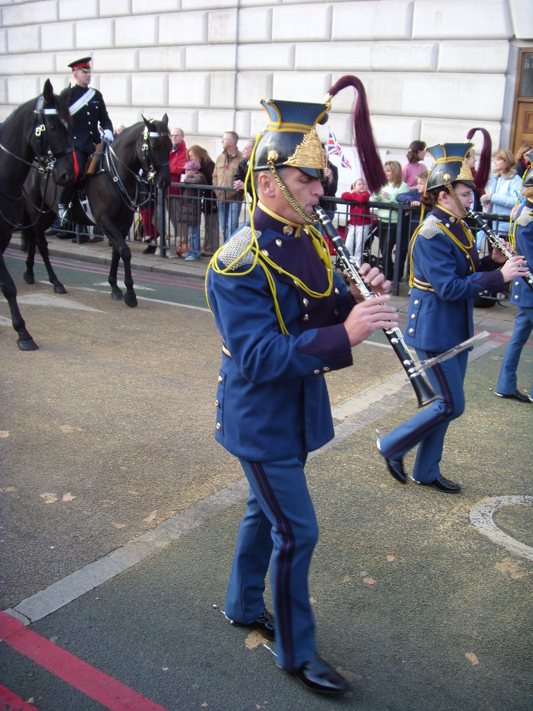 Lord Mayor show 2007